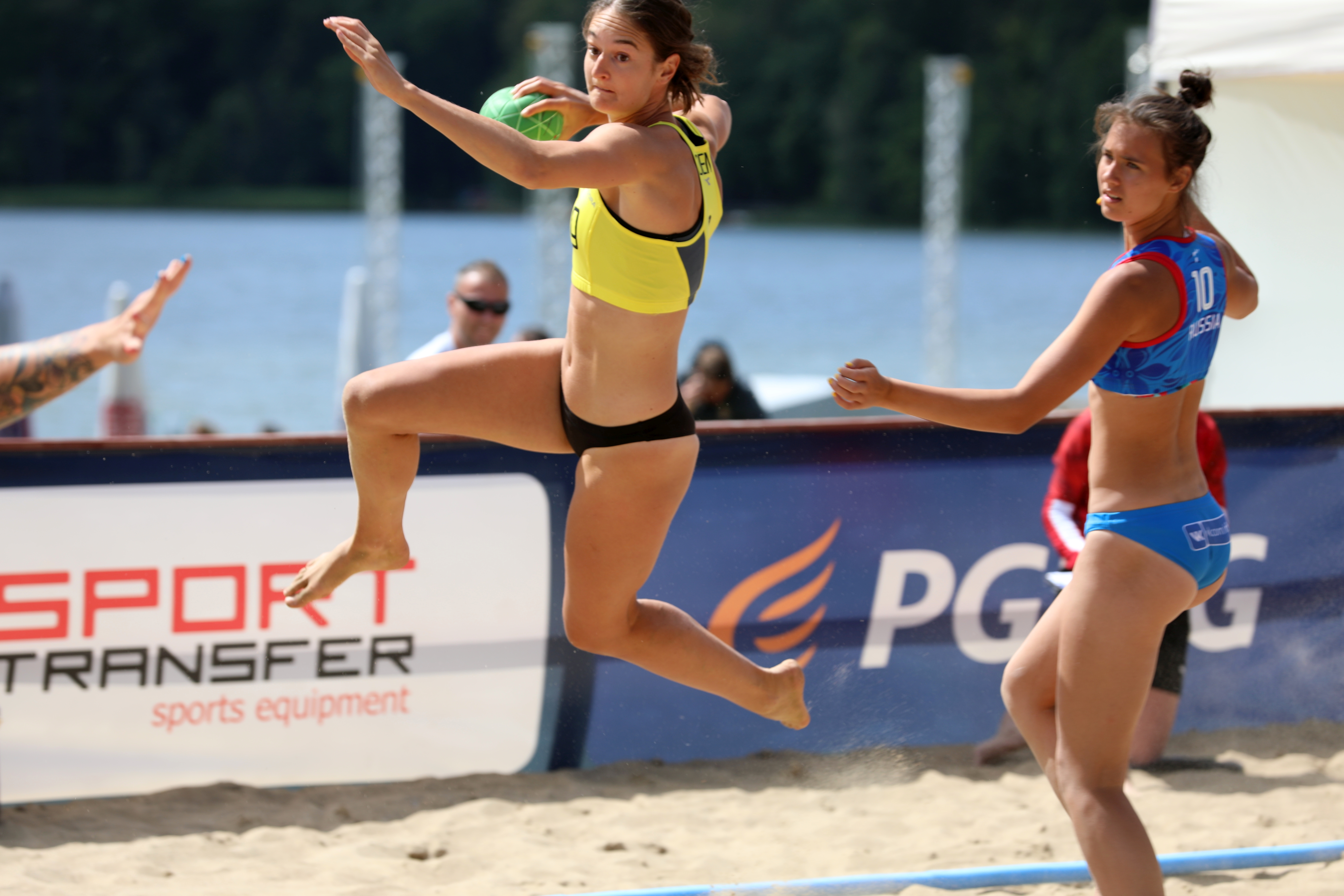 Beach handball Euro; Day 2: 3 July 2019 – Women Preliminary Round Group D – Denmark-Russia 2:0 (21:16, 18:12)